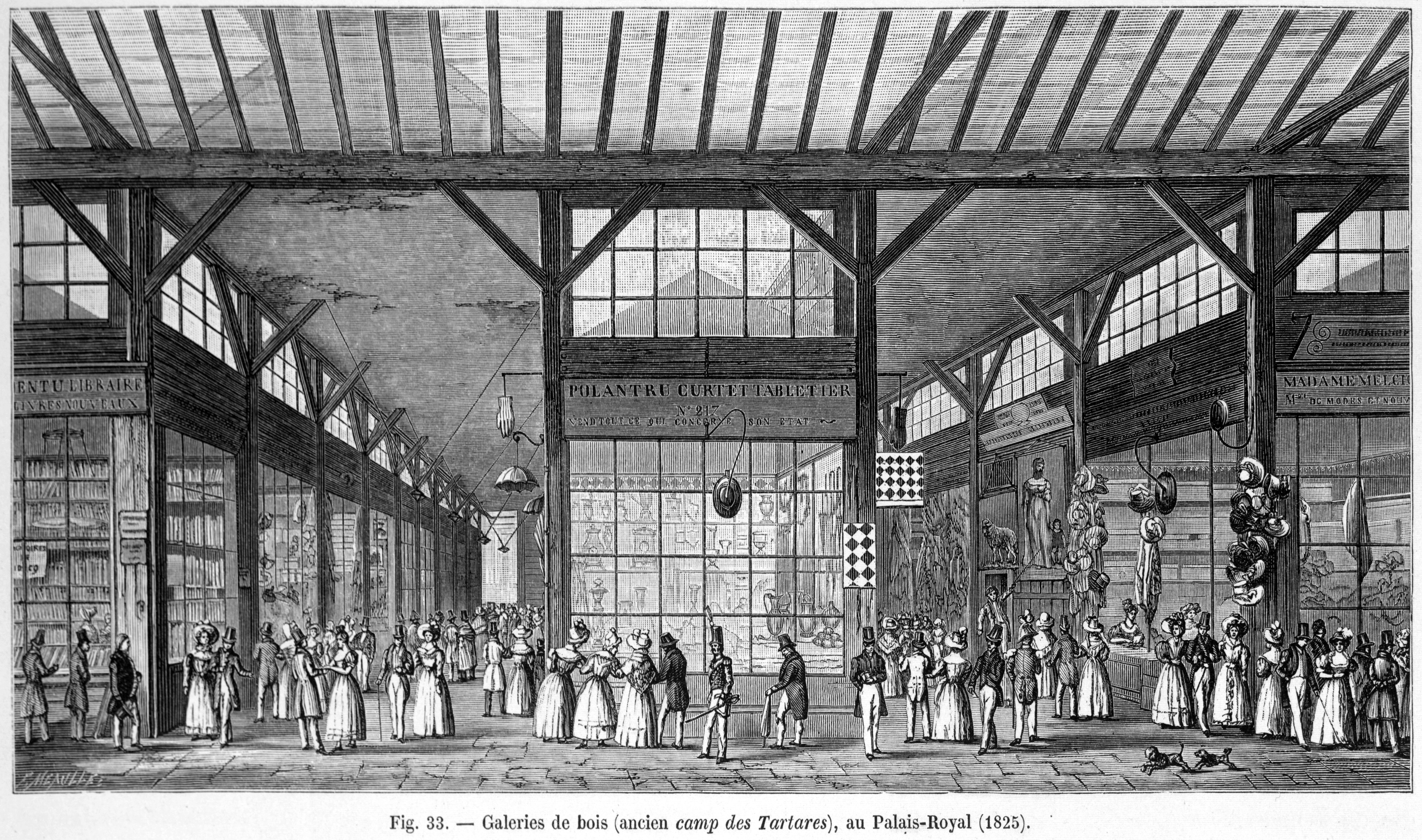 The Galeries de Bois were established in 1784 in the garden of the Palais-Royal, located in the first arrondissement. In addition to over one hundred boutiques, the Galeries featured circus-like attractions that served as entertainment to the visitors. They were also referred to as the "camp des Tartares".